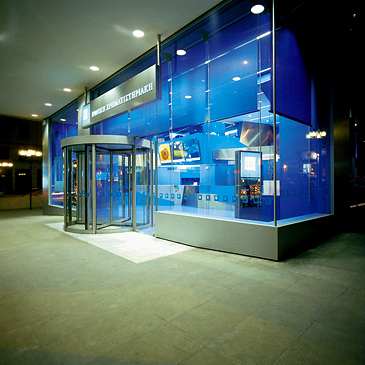 Architectural Corporate Identity of “Ethniki Chrimatistiriaki”